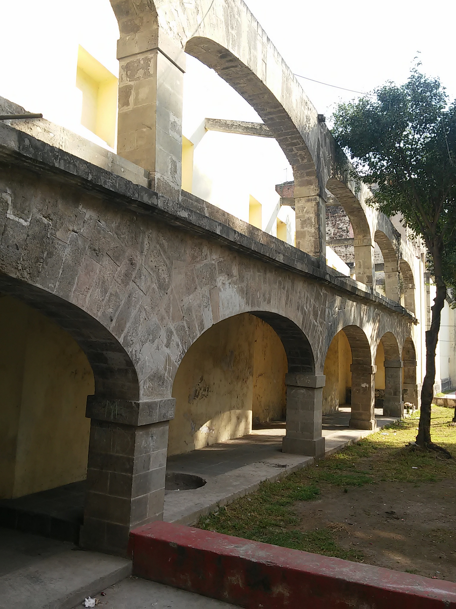 Arcos del convento de Santo Domingo, actualmente en el interior de la unidad habitacional de la calle República de Chile 47